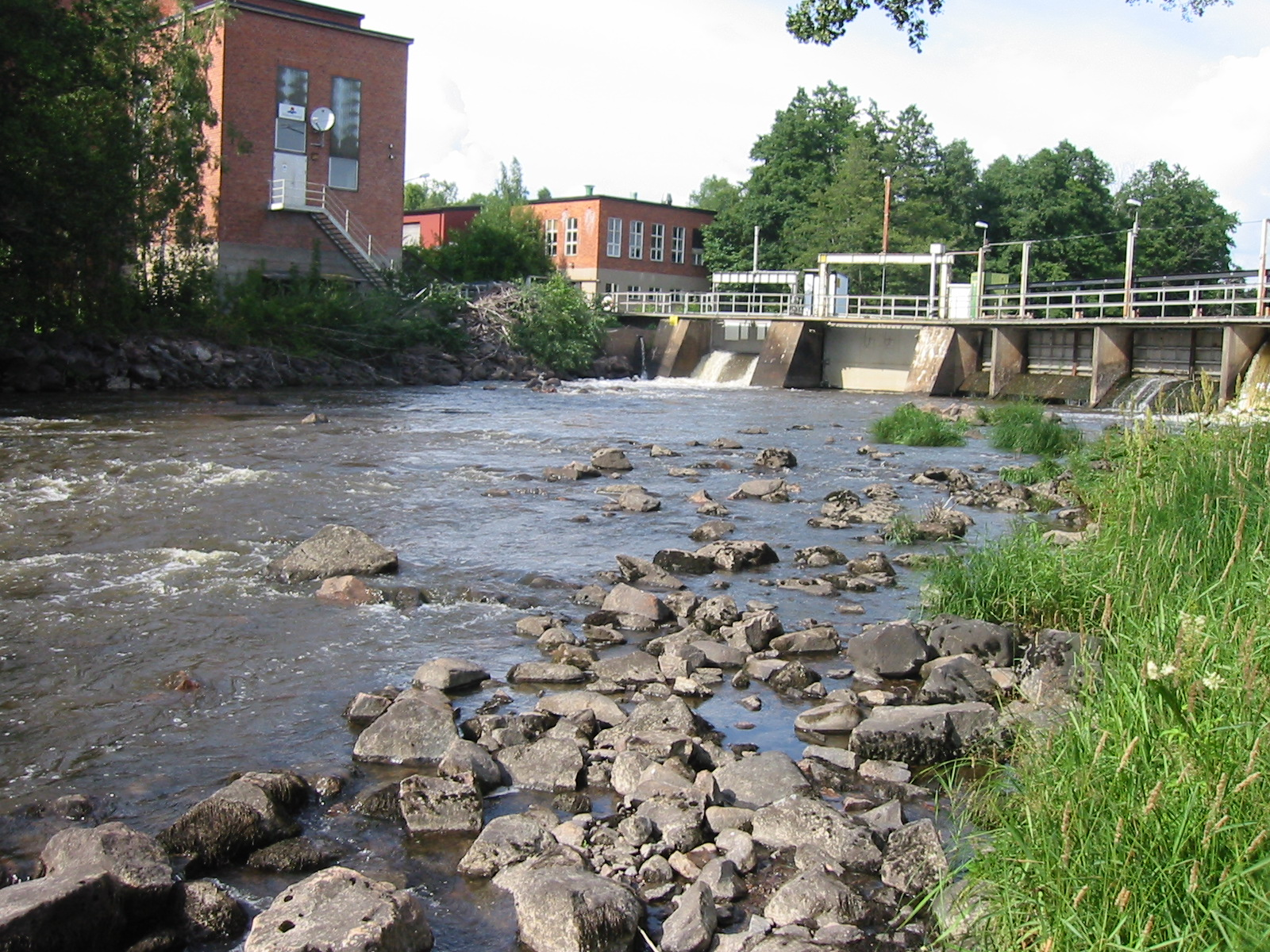 The rapids in Sörstafors.